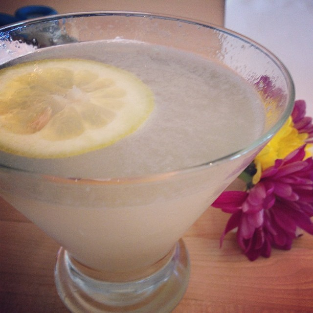 Mother's Day Lemon Drop cocktail